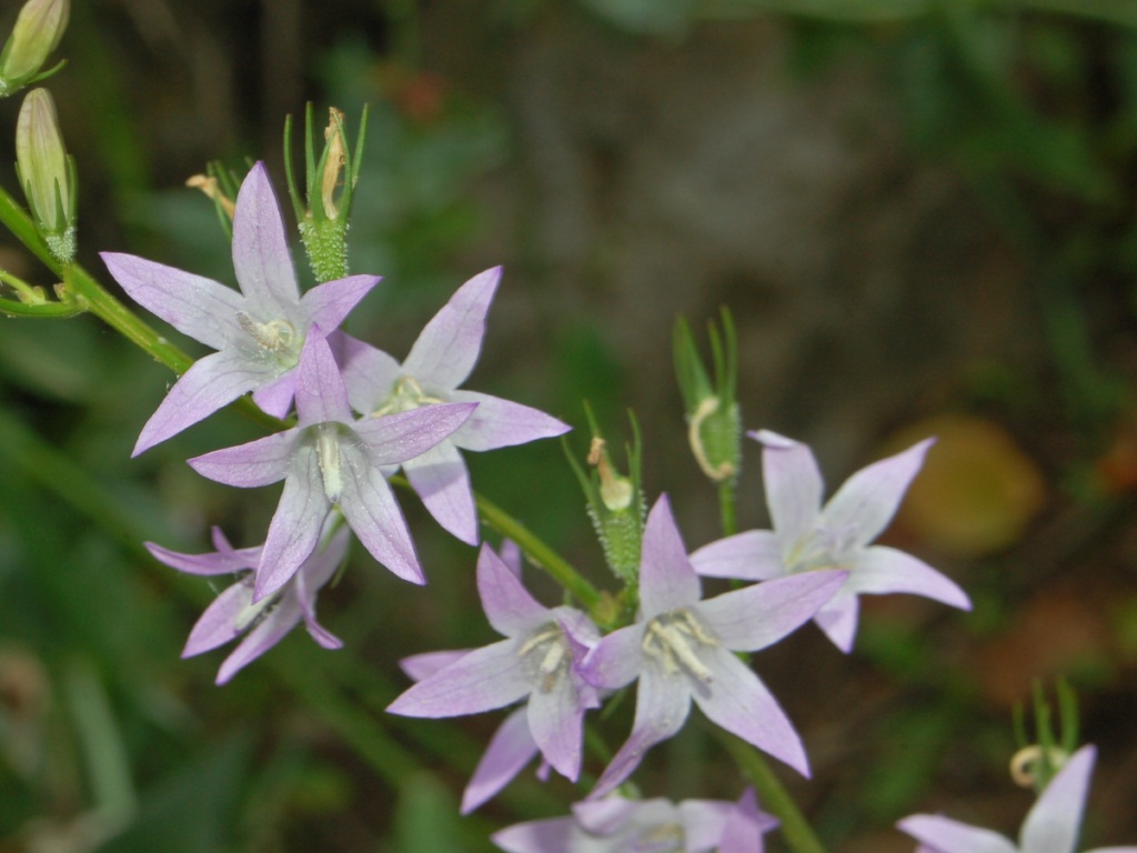 Campanula rapunculus - Genova, Italy